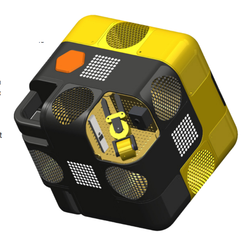 Artist’s concept of the Astrobee robotic free flyer. (International space station)